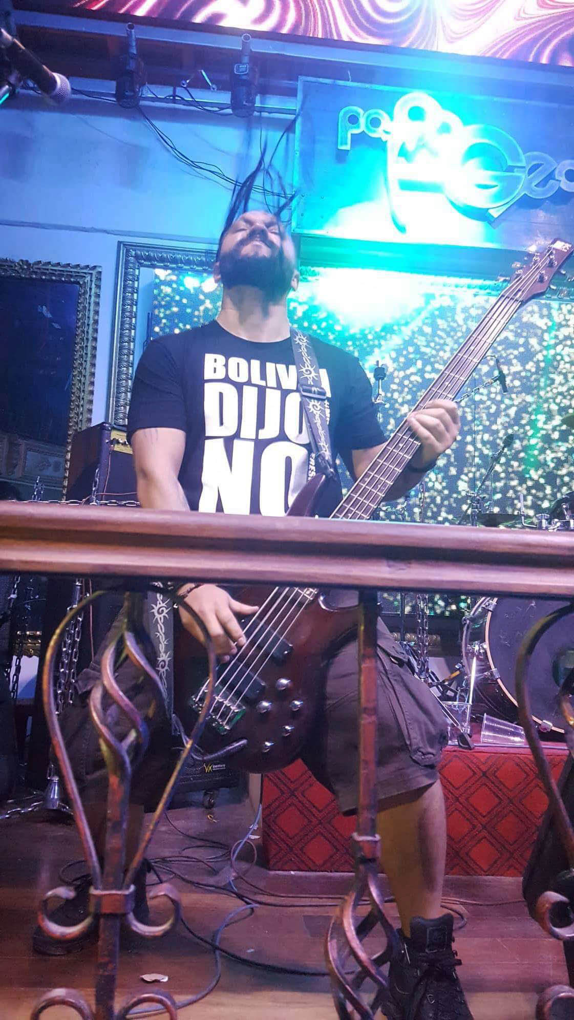 Vito Paredes en la ciudad de Sucre en PaPaGeorge - Bolivia dijo No